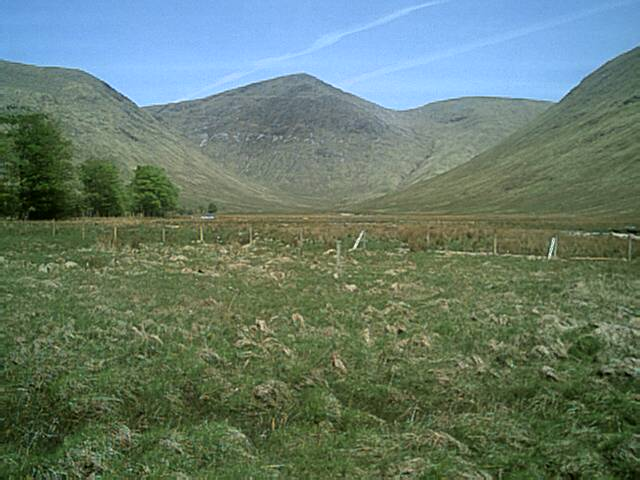 Creach Bheinn from the foot of Glen Galmadale